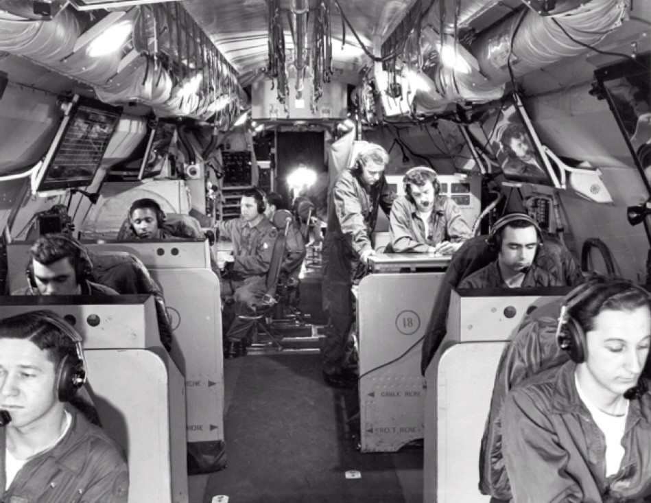 View of the radar operators in an U.S. Air Force Lockheed EC-121D Warning Star aircraft of the 552nd Airborne Early Warning & Control Wing during the Vietnam War.